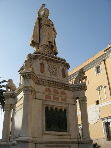 Statue of Eleanor of Arborea (1347-1404), giudicessa ("judge") of Arborea from en:1881. Oristano, Sardinia, Italy.